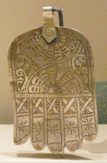 Tropenmuseum Amsterdam „Hand of Fatima“ (Khamsa) amulet, silver alloy, Berbers, Morrocco beginning 20th century